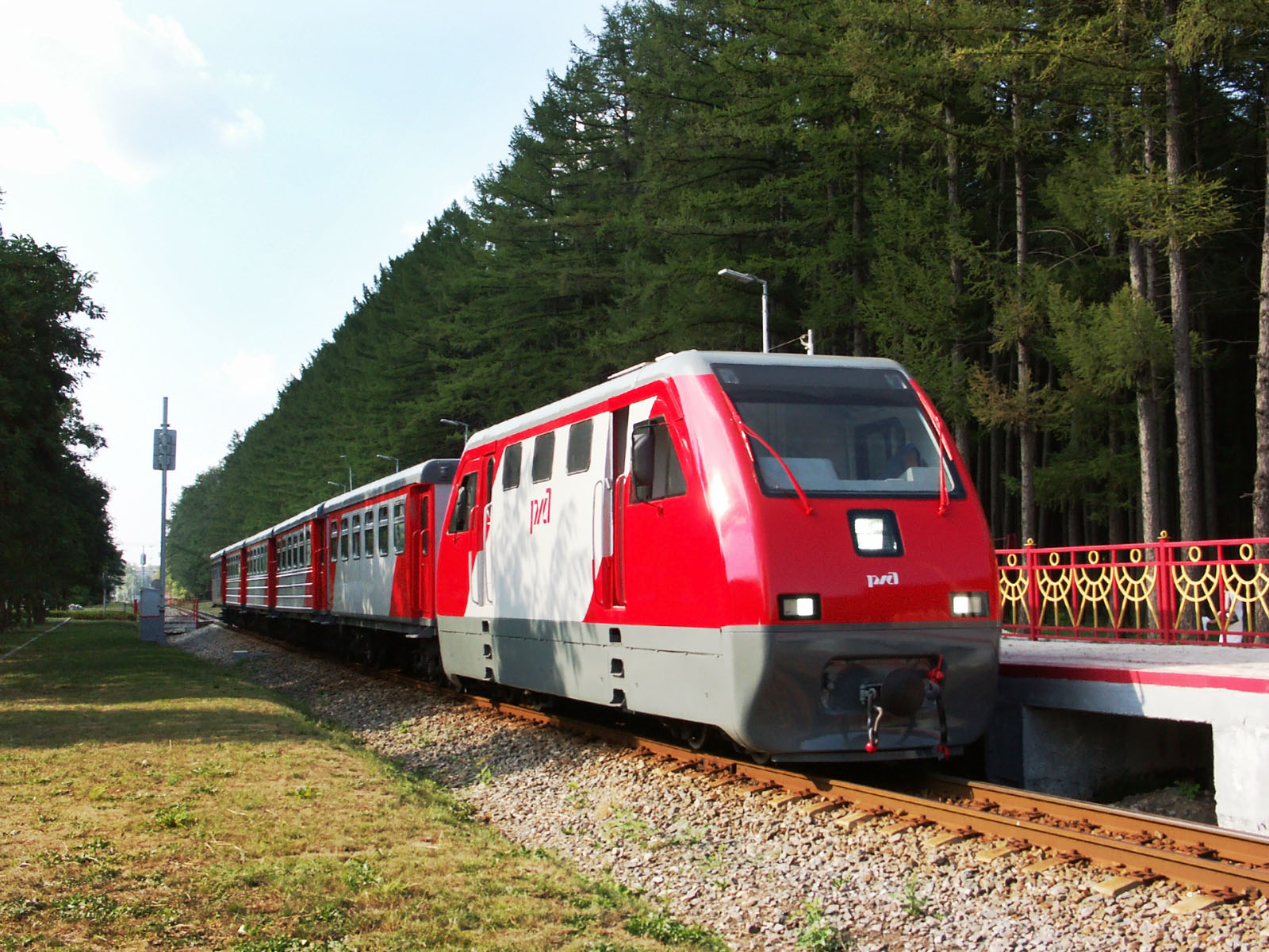 Children's railway in Novomoskovsk